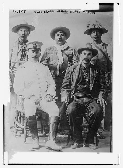 Gen. Alfaro Obregon and staff of Yaquis